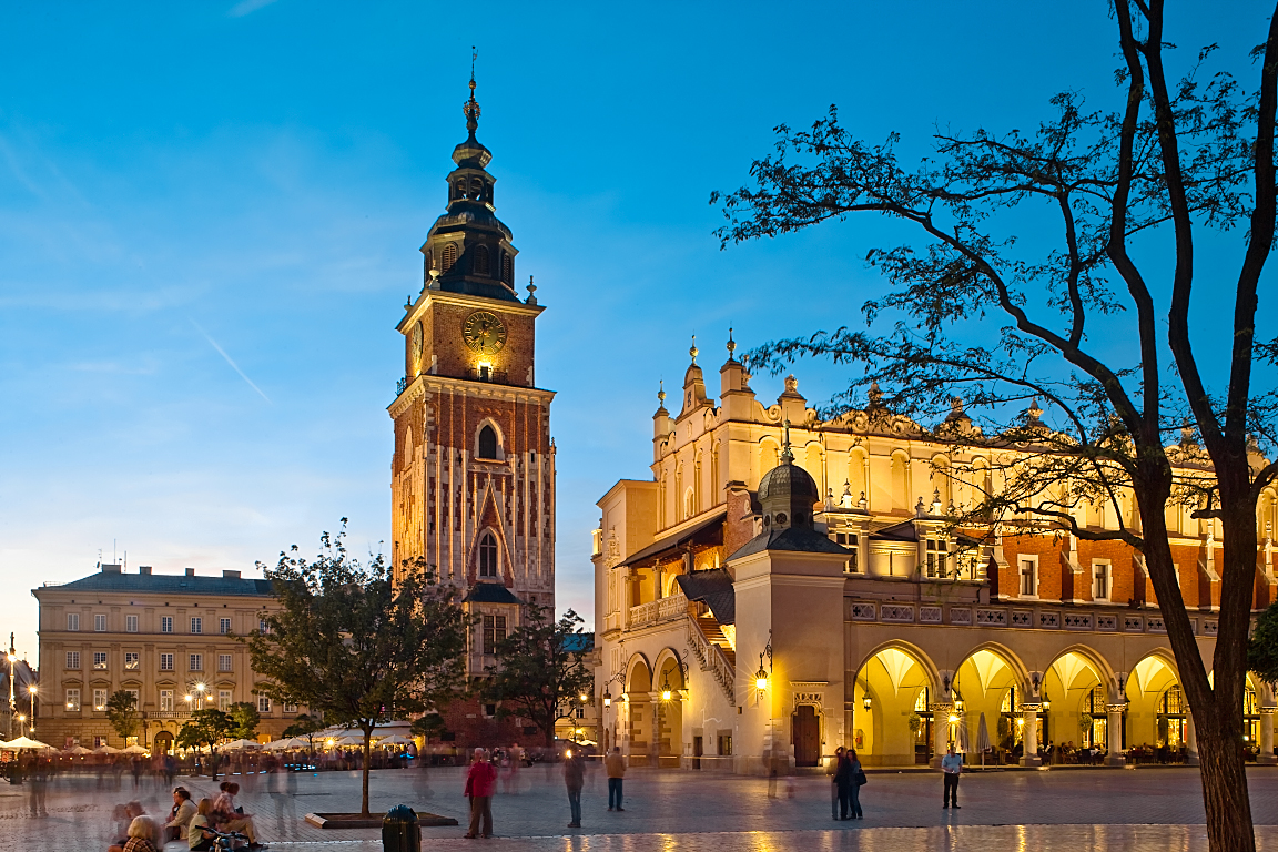 The Town Hall Tower & a part of the Sukiennice in Krakow, Poland.